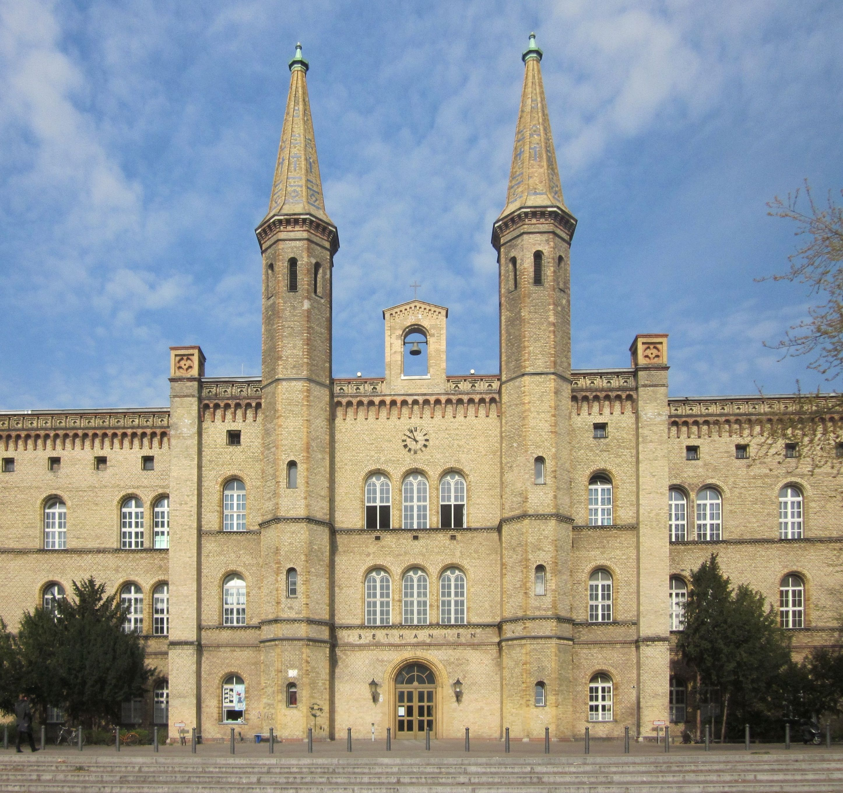 Middle part of the main building of the former Deaconess Hospital Bethanien, now Artists' House Bethanien, at Mariannenplatz No. 1-3 in Berlin-Kreuzberg. It was built from 1845 to 1847 to a design by Ludwig Persius and Theodor Stein. Other parts were added until 1930. The whole complex has been designated a historic landmark.